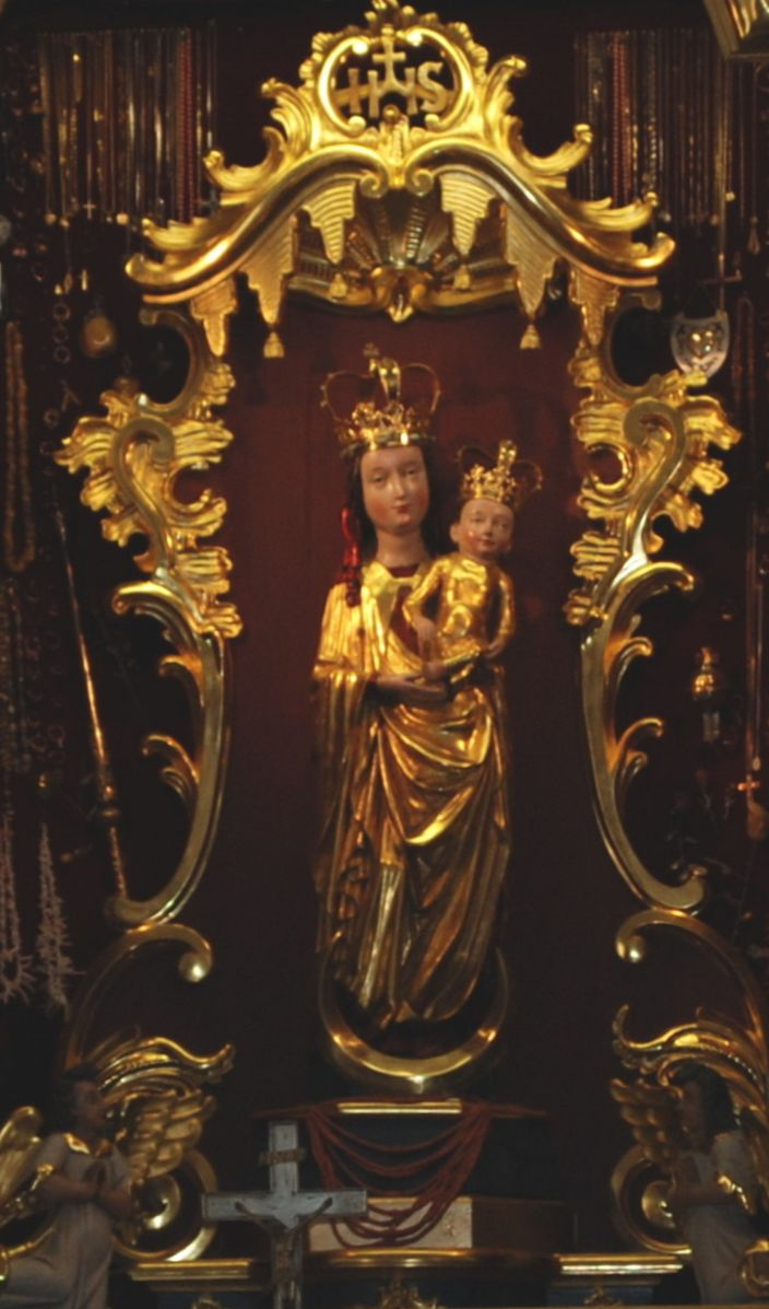 Virgin Mary with Child of Keblo, the gothic figure from first half of 15th century, Wąwolnica, Poland.